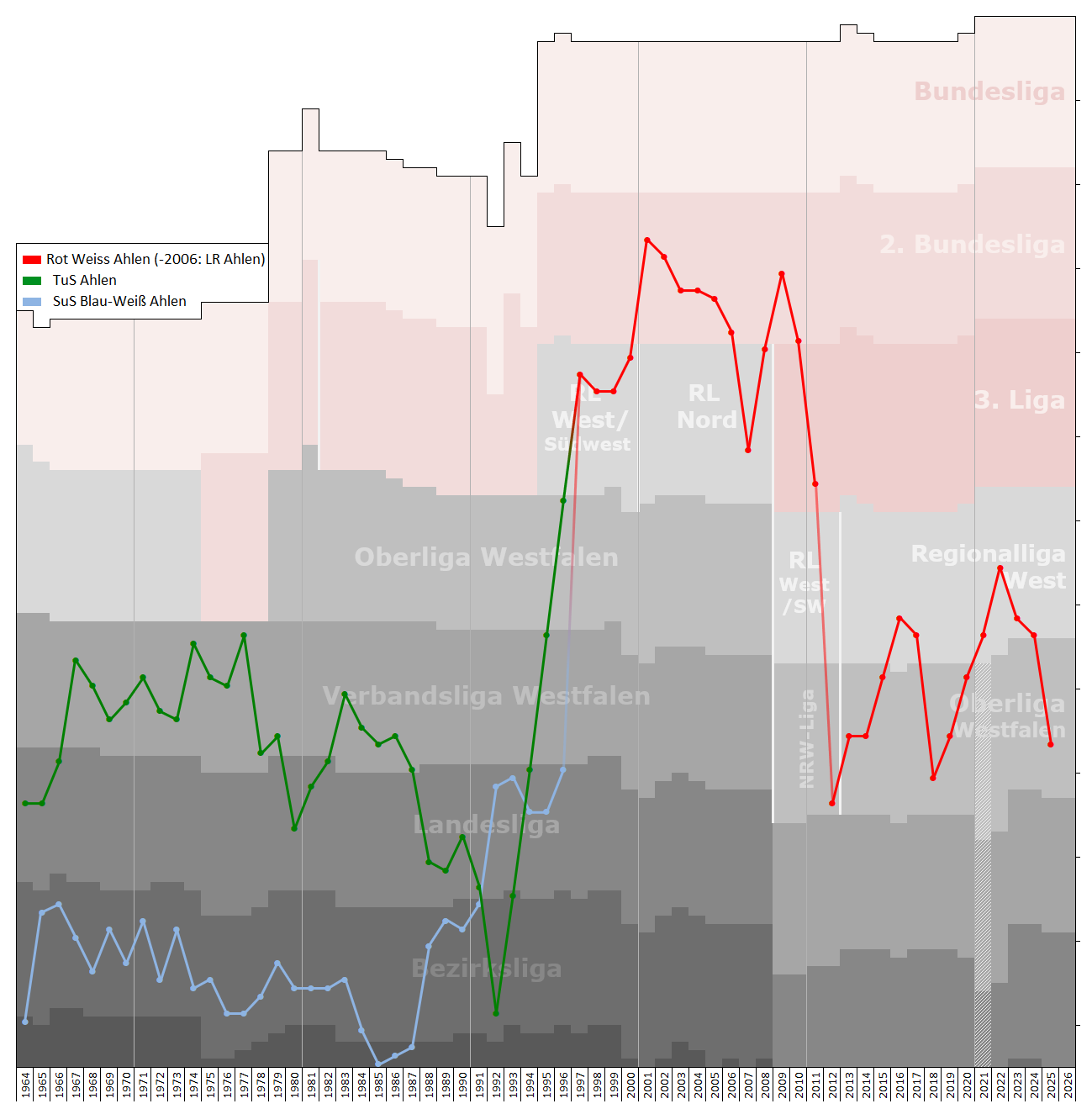 Chart of end-season table positions of Rot-Weiss Ahlen in the football league system of Germany. Data source: RSSSF, wikipedia, f-archiv.de, fussball.de